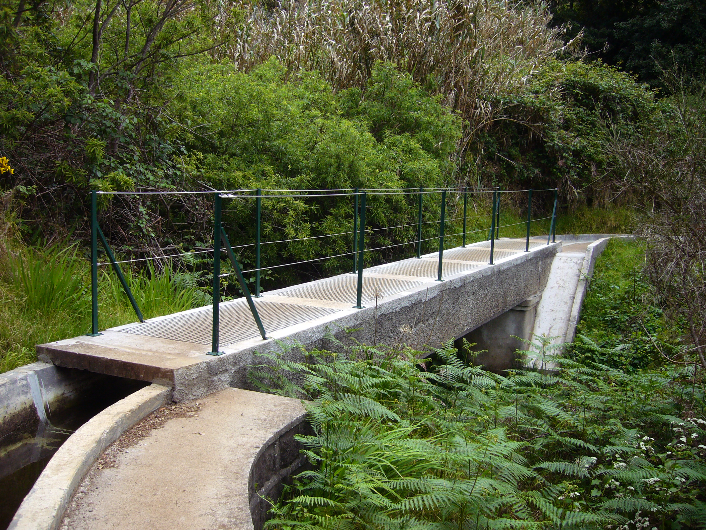 Levada da Fajă da Ovelha (Madeira) crosses a mountain brook